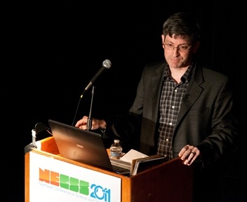 Carl Zimmer speaking at NECSS 2011, Baruch College (CUNY), NYC